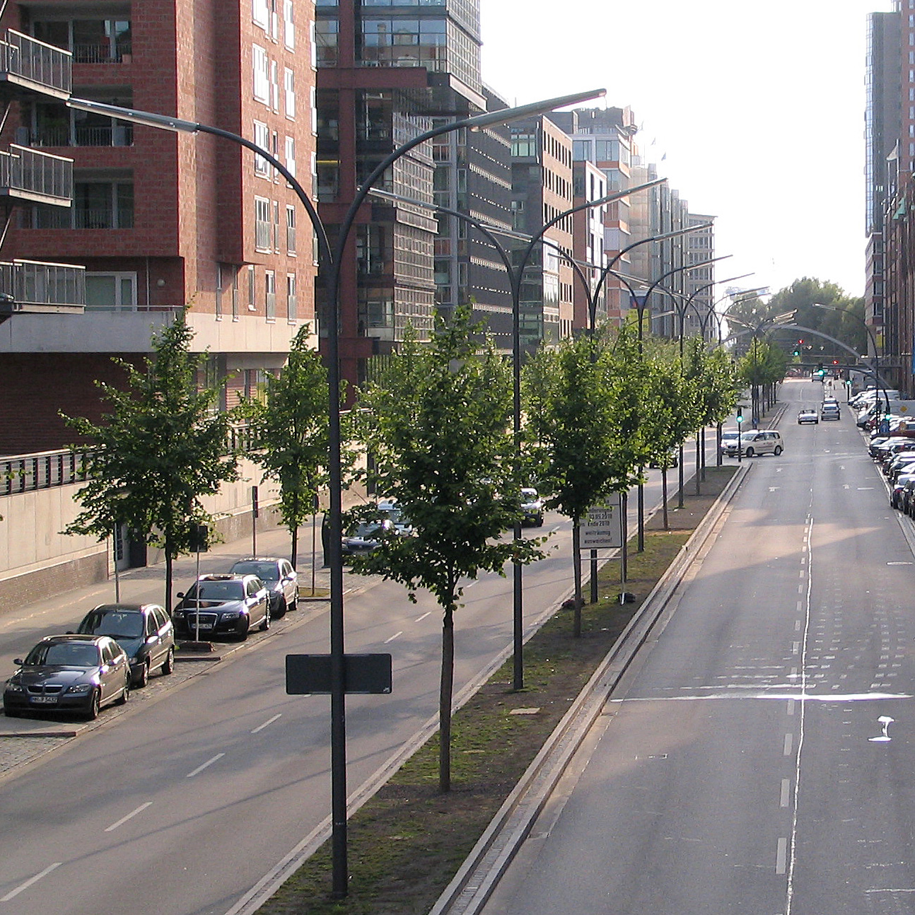 Liquidambar styraciflua Hamburg